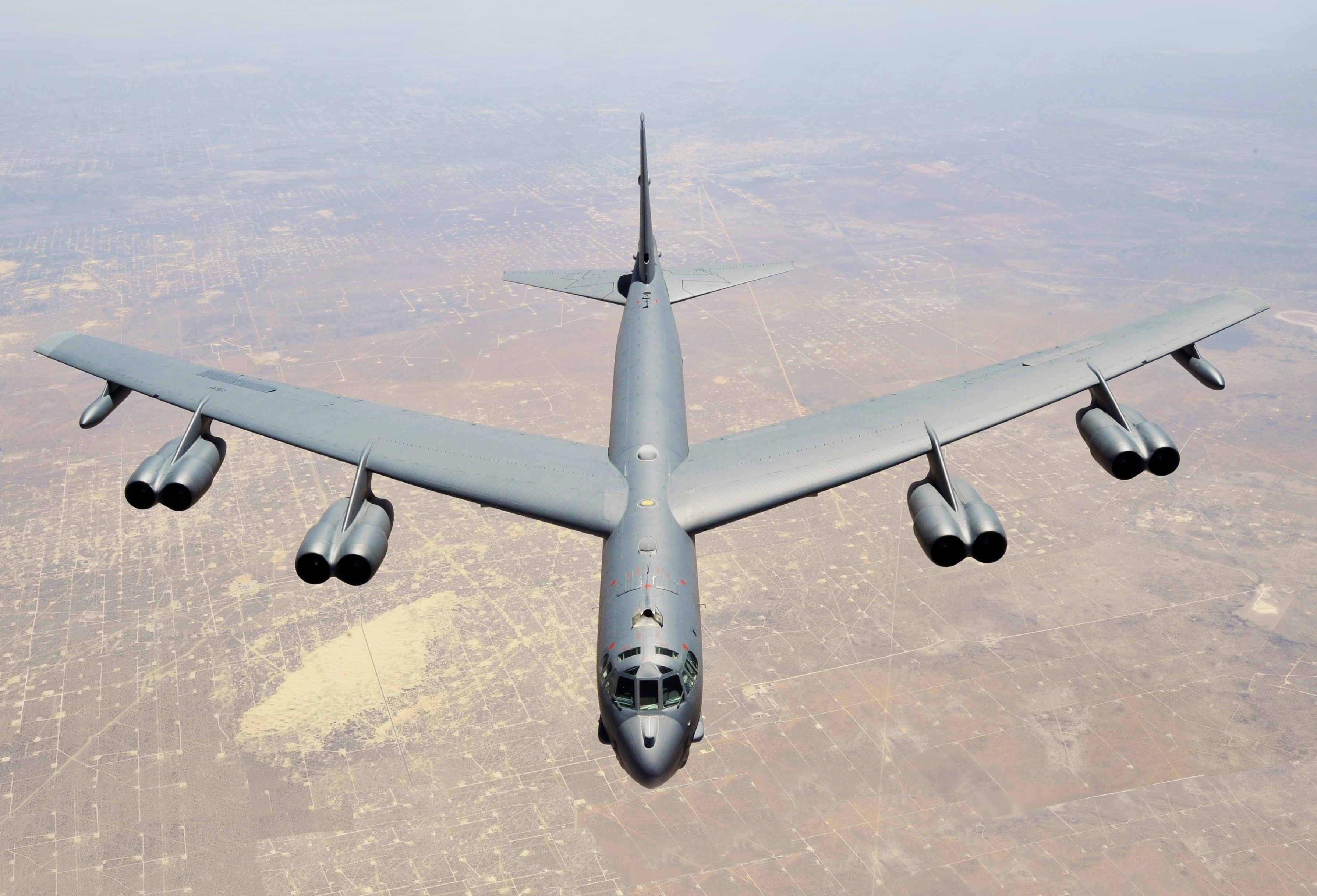 A B-52 Stratofortress assigned to the 307th Bomb Wing, Barksdale Air Force Base, La., approaches the refueling boom of a KC-135 Stratotanker from the 931st Air Refueling Group, McConnell Air Force Base